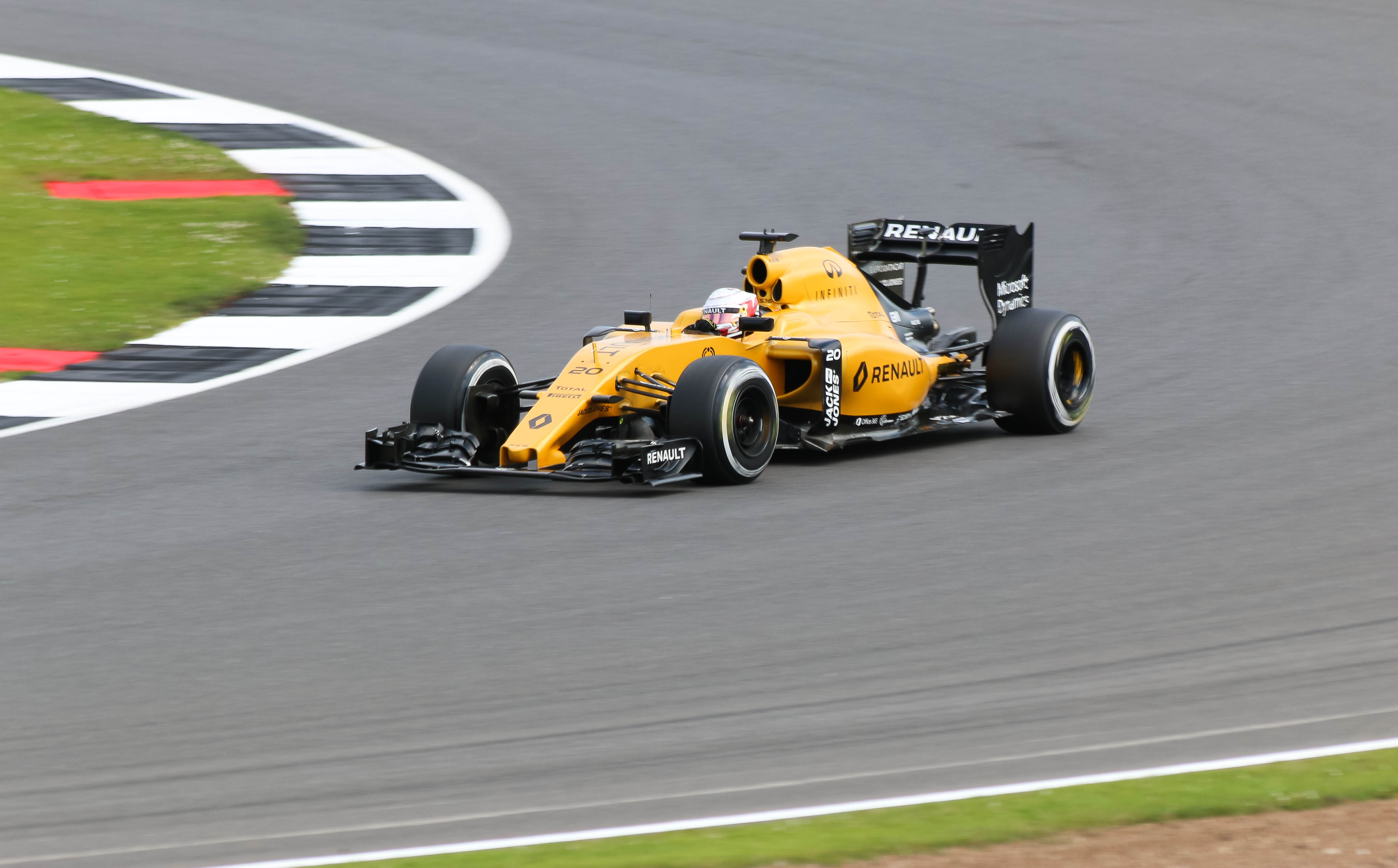 Kevin Magnussen in its Renault RS16, 2016 British Grand Prix